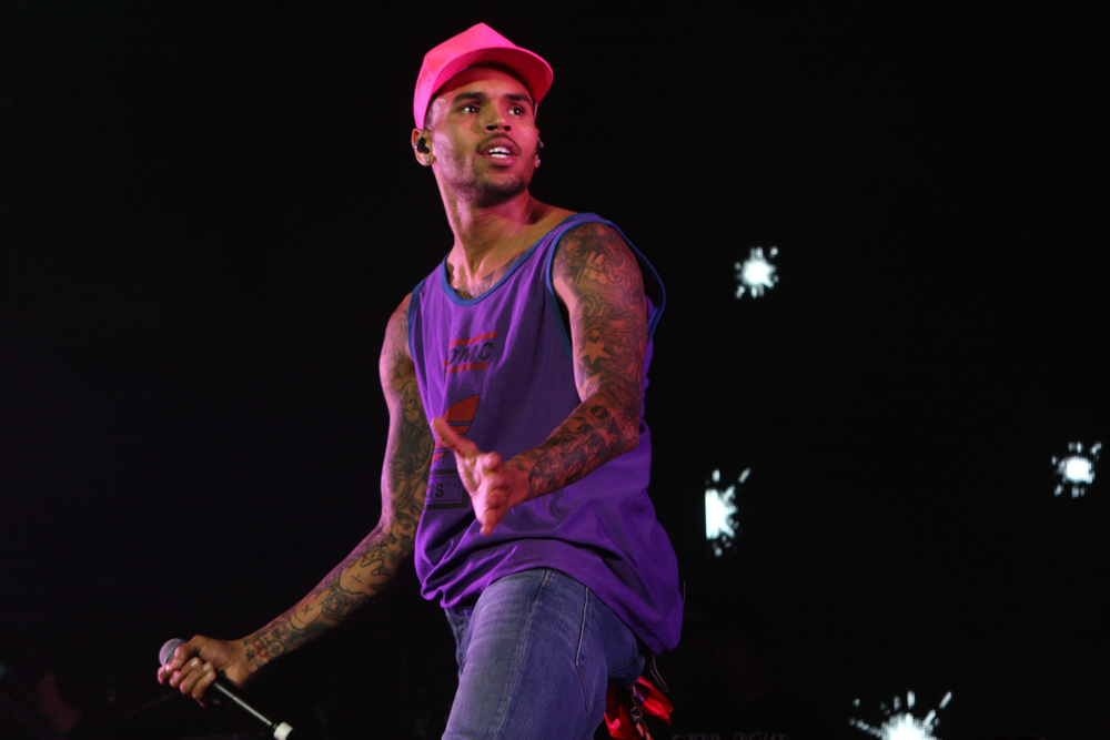 Supafest 2012, Sydney, Australia; Chris Brown, Kelly Rowland, Lupe Fiasco, Naughty By Nature and more